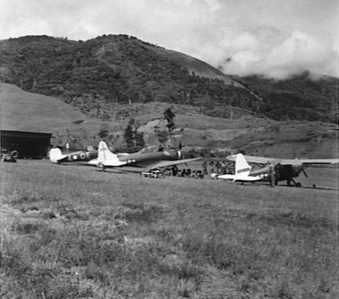 View of the top portion of the Wau airstrip, New Guinea, which was unique in that it ran up the slope of a hill requiring pilots to use judgment in landing. The aircraft are, from left to right, a CAC Wirraway of 4 Squadron RAAF (coded QE-L), a Douglas A-24 Banshee (s/n 41-15801) of the USAAF and a Stinson L-5 Sentinel (s/n 42-98060) of the 25th Liaison Squadron USAAF.